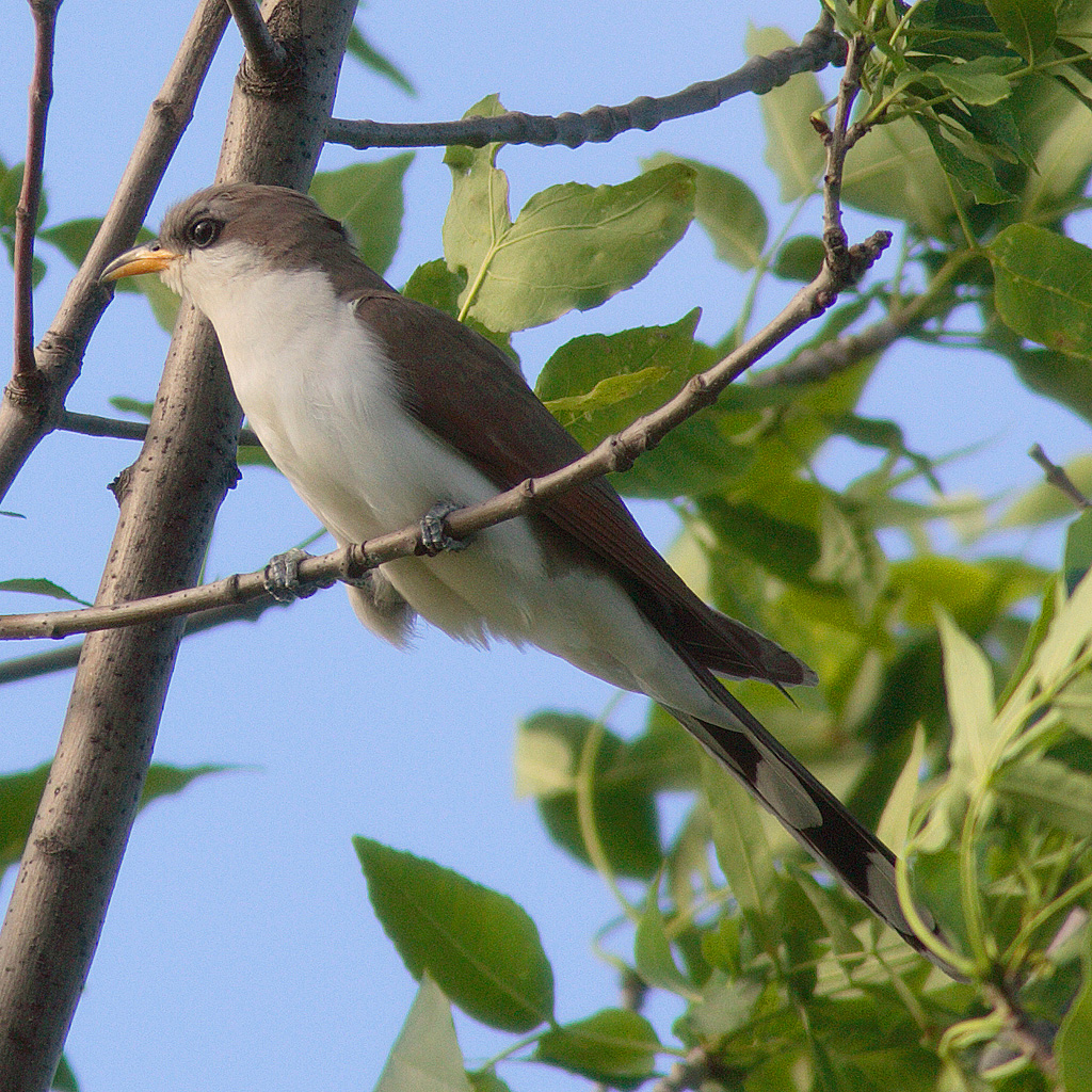 Description: Yellow-billed Cuckoo (Coccyzus-americanus), Cyprus Lake, Bruce Peninsula National Park, Canada, 2005; de: Gelbschnabelkuckuck Photograph: Mdf first upload in en wikipedia on 22:28, 4 July 2005 by Mdf Licence